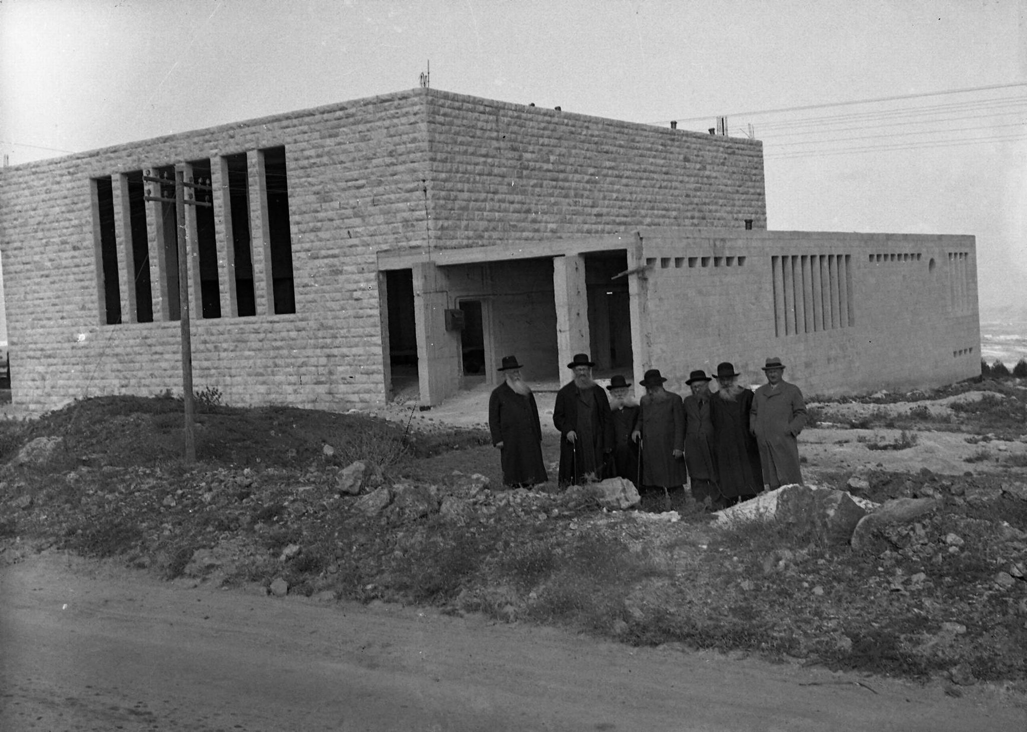 Russian rabbis near the synagogue at Talpiot neighbourhood of Jerusalem.